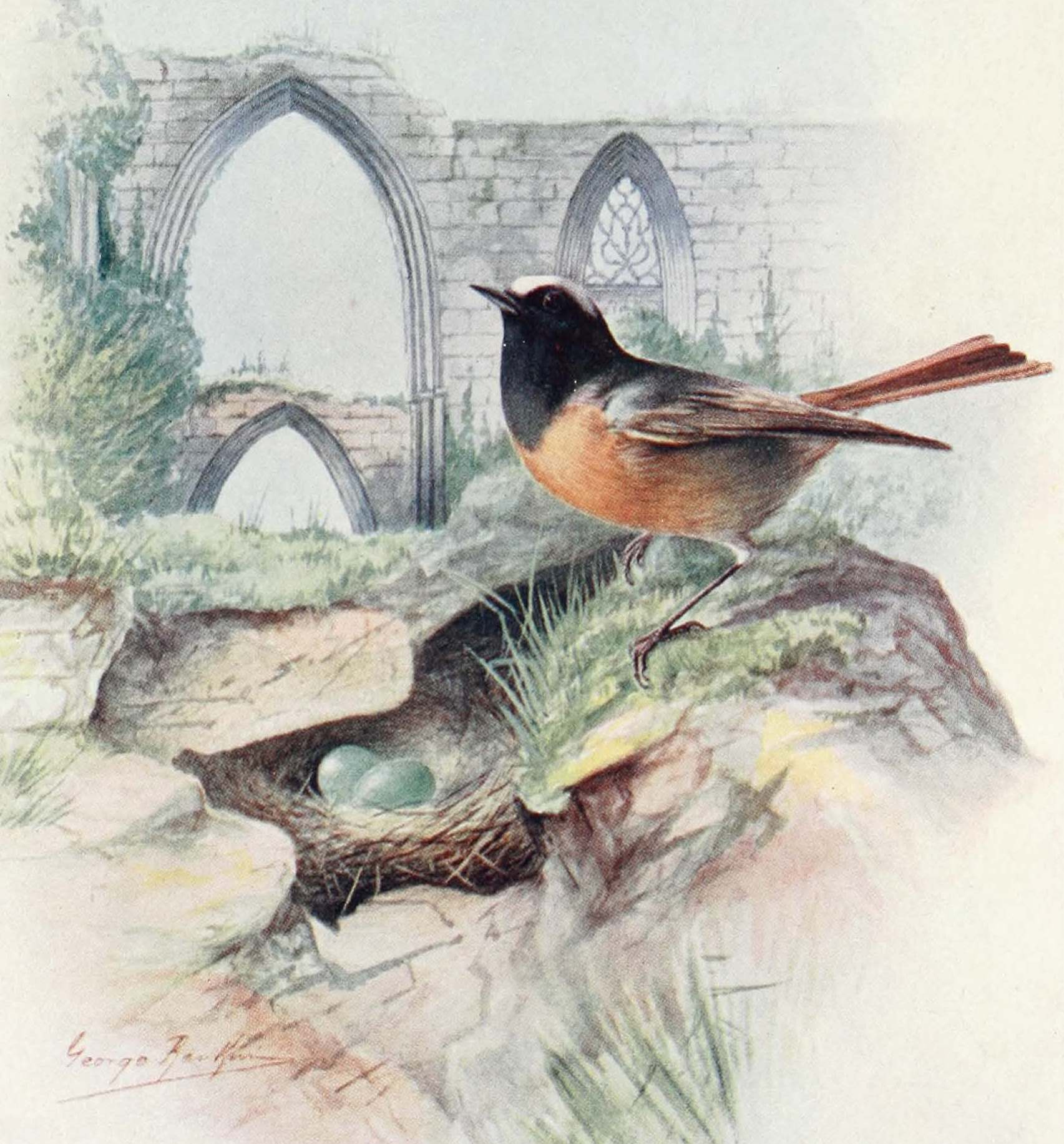 Phoenicurus phoenicurus, Landsborough Thomson